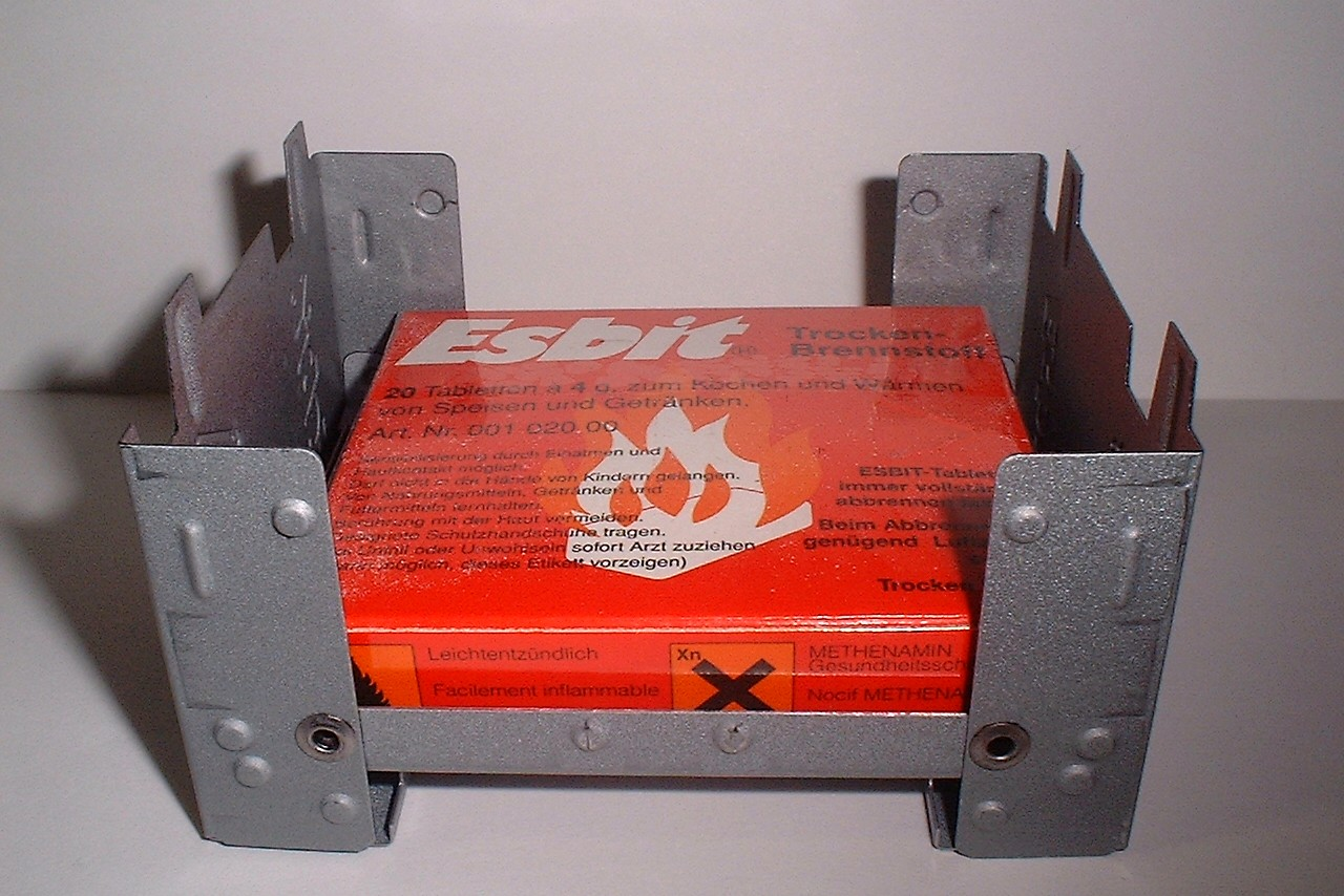 Pocket-size collapsible cooker (Solid Fuel)